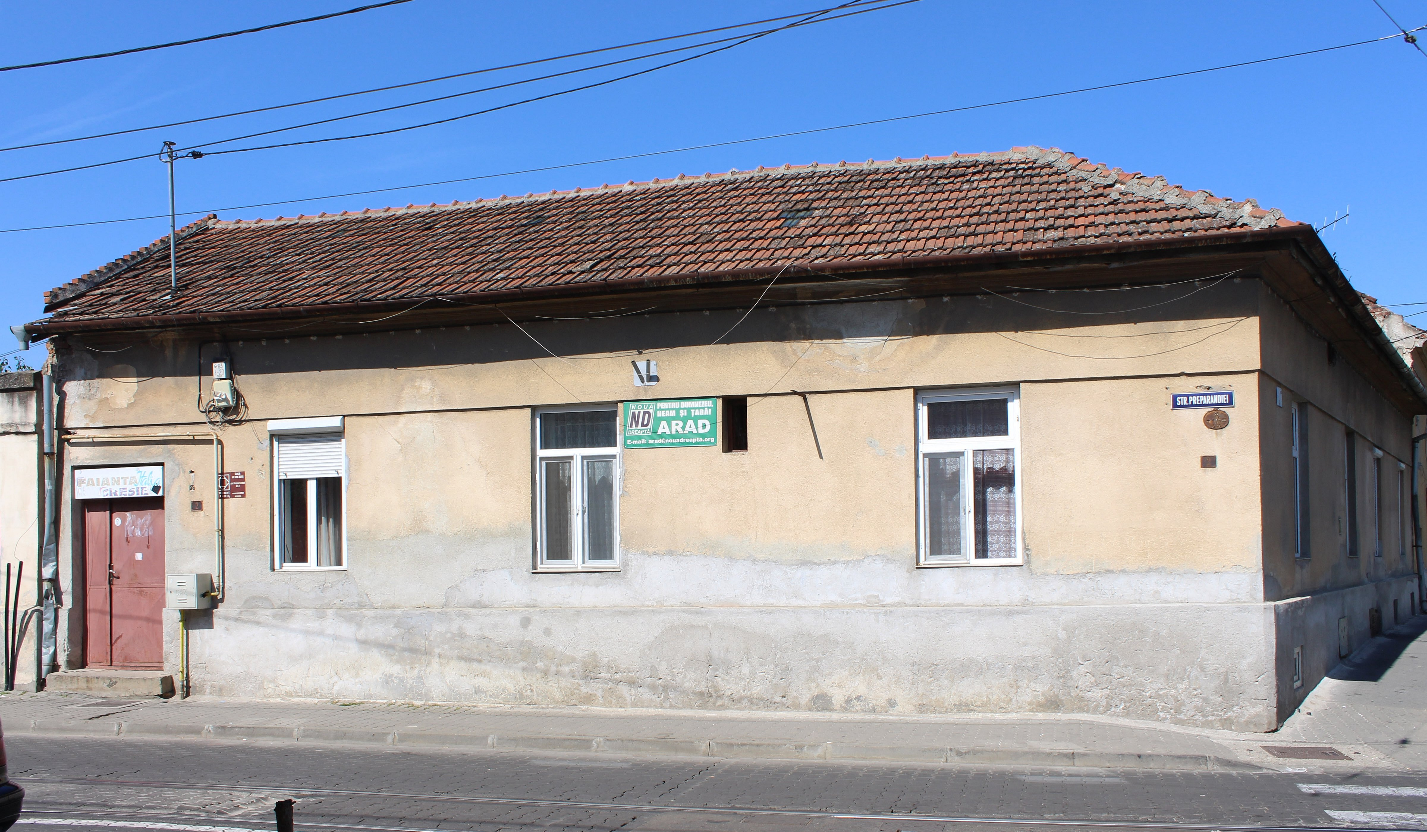 House in Arad, Romania, str Preparandiei 2, built late of 18th century